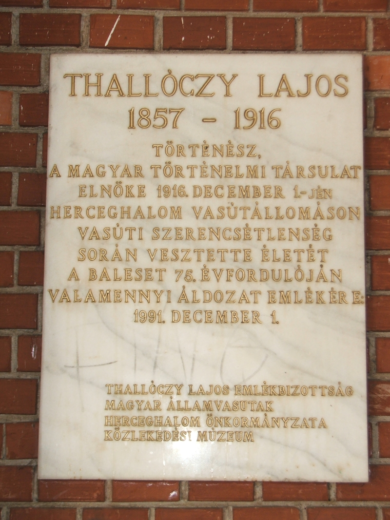 Plaque at the Herceghalom railway accident site